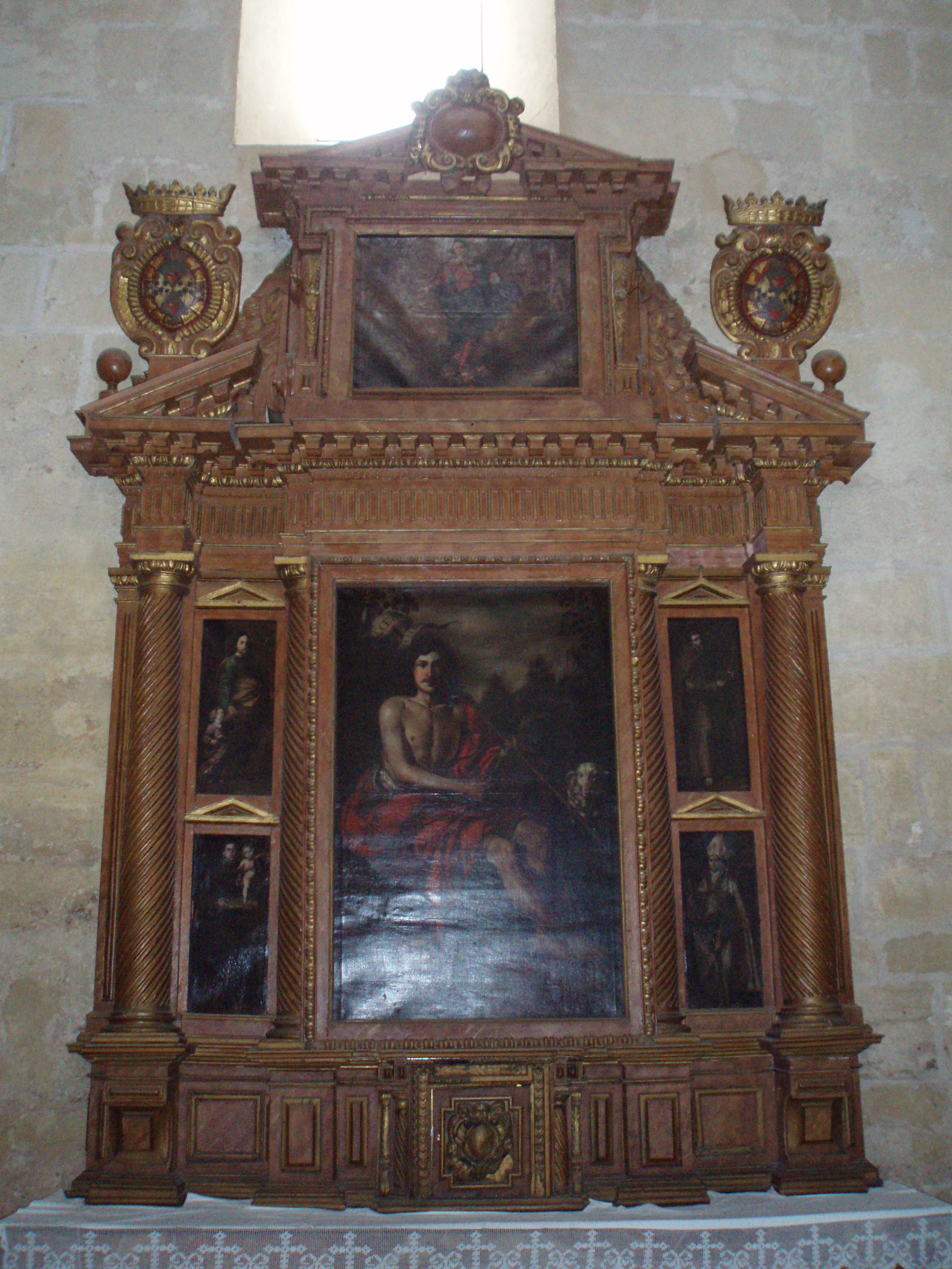 Church of Santa Marina of Aguas Santas of City of Córdoba (Spain)